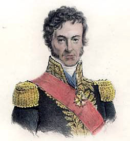 The french admiral Corentin de Leissegues (1758-1832)